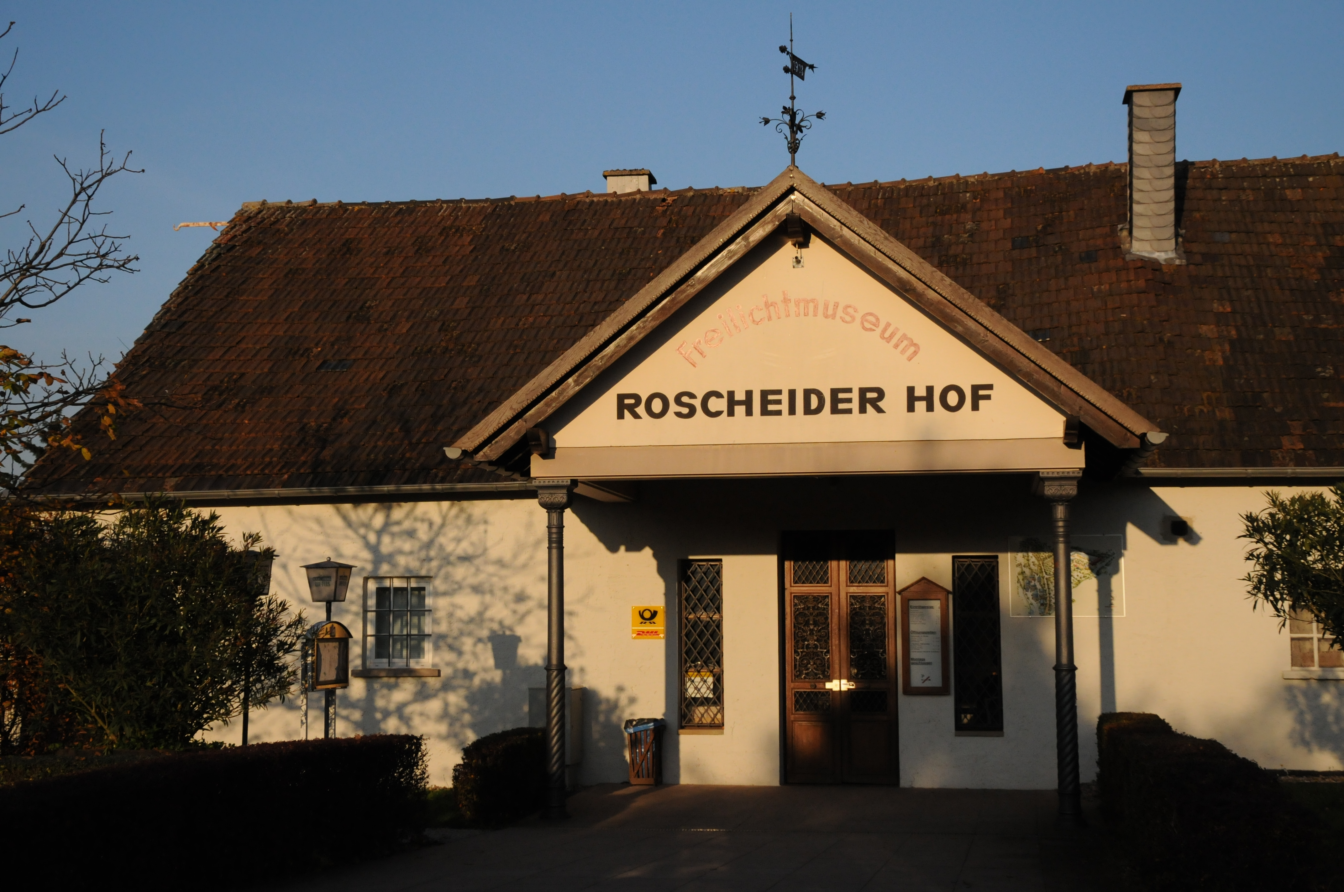 Open air museum Roscheider Hof, Germany, Entry building